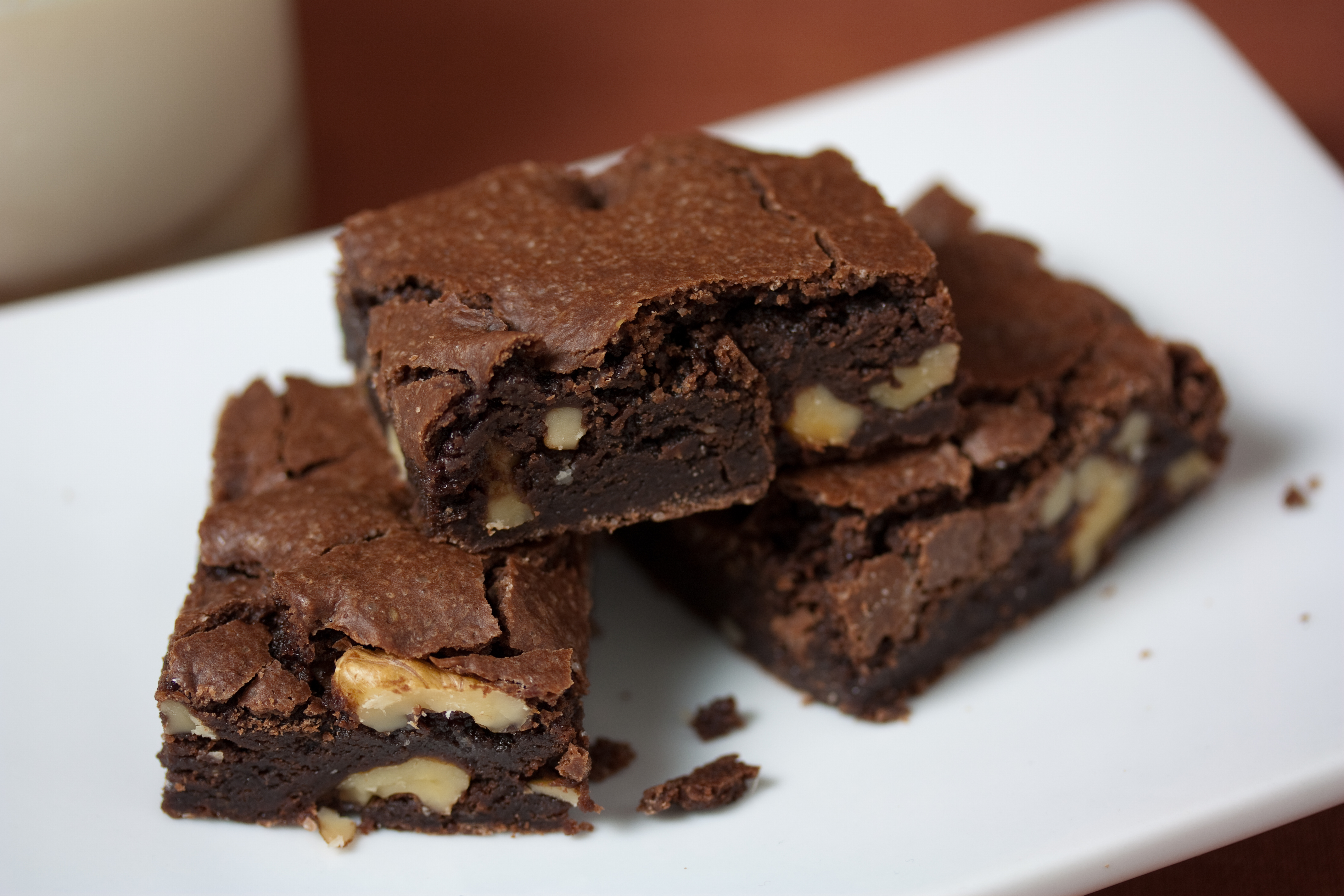 Vegan Brownies with walnuts. Taken 4 June 2010.